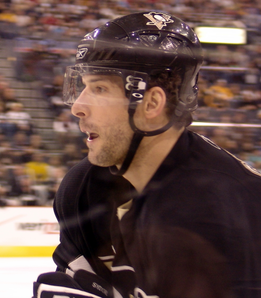 Darryl Sydor skating for the Pittsburgh Penguins during a late season game against the New York Rangers March 30, 2008 at Mellon Arena in Pittsburgh, PA.